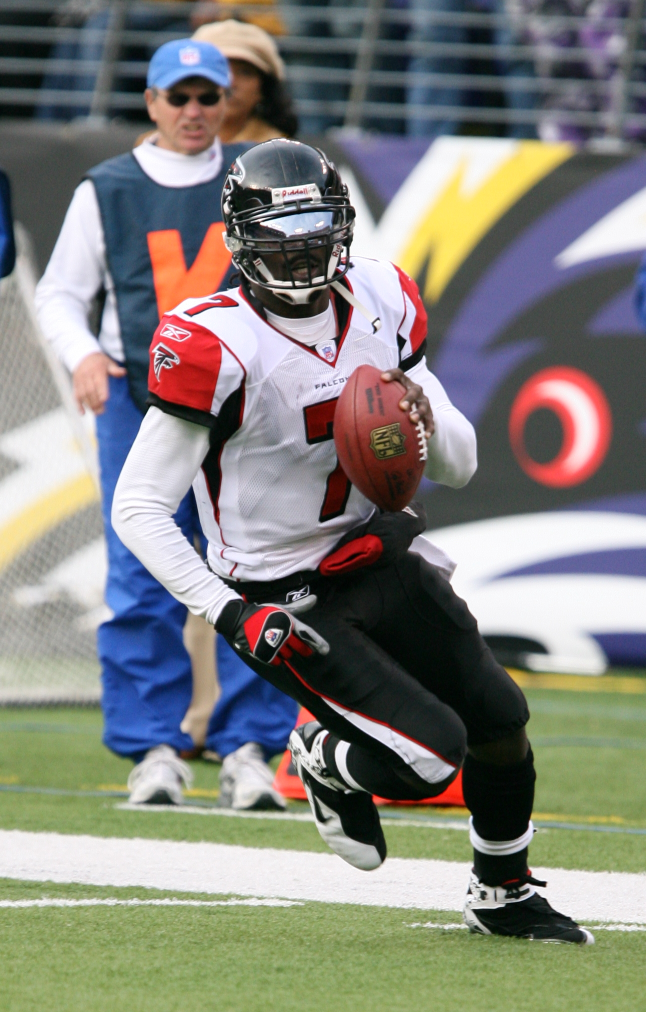 Michael Vick scrambling during a game against the Baltimore Ravens, November 19, 2006.